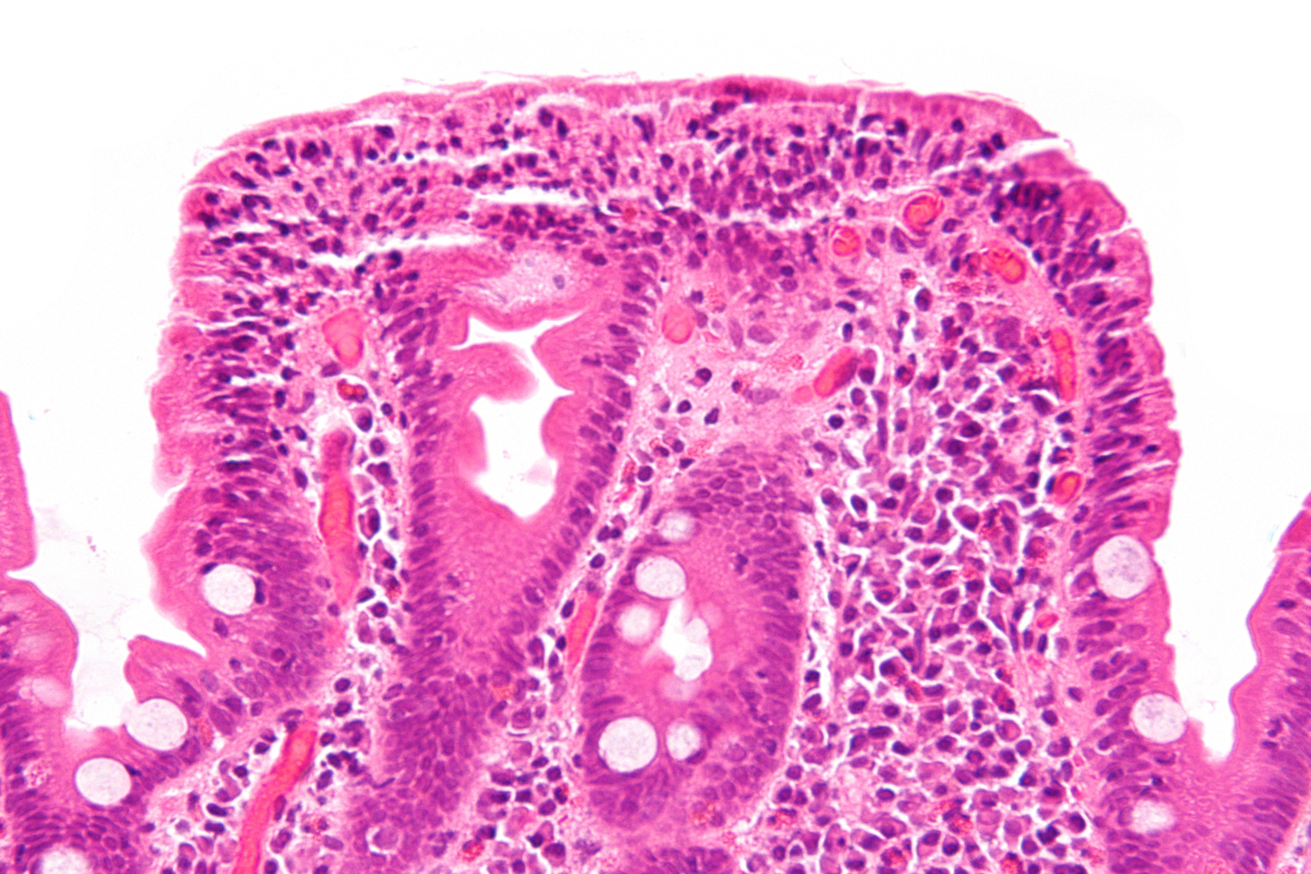 Very high magnification micrograph of celiac disease. H&E stain. Related images Low mag. Intermed. mag. High mag. Very high mag.